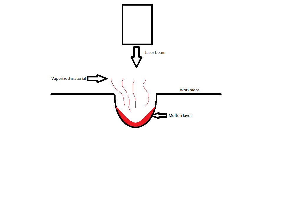 Pictorial showing how laser beam machining works